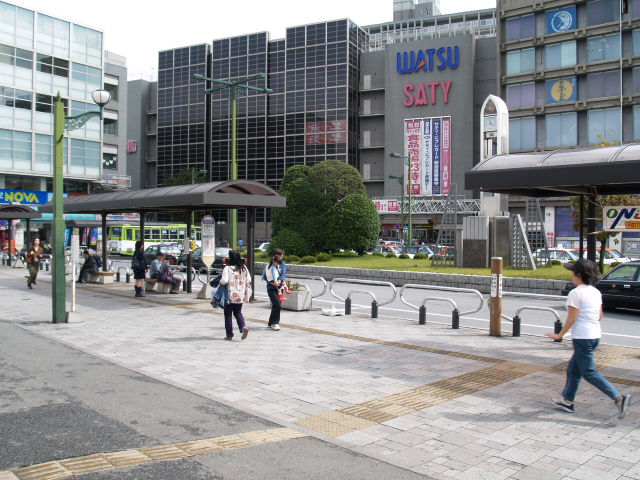 Watsu in Iwatsuki-ku, Saitama City, Japan